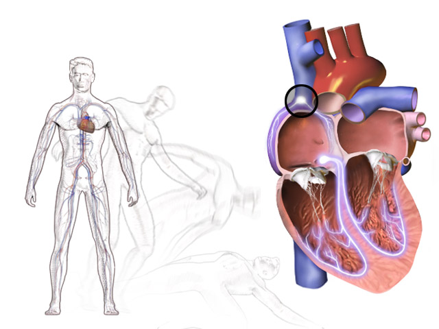 Bradycardia (Fainting). See a related animation of this medical topic.